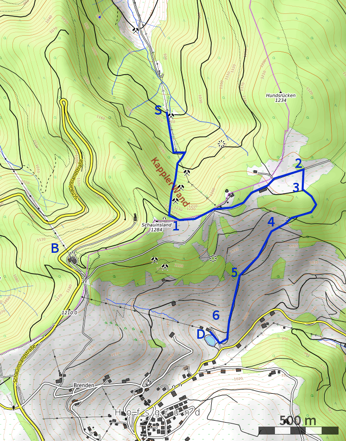 Probable route of the students group through the 1936 blizzard, according to local research and witness reports. S = Meeting postman Otto Steiert, then ascent up the Kappler Wand 1 = Arrival on ridge, drawn eastward by the storm 2 = Probably first overhearing of bells, might explain for the change of direction 3 = place where Jack Eaton was found with two survivors 4 = place where Francis Bourdillon and Roy Witham were found, together with Keast and another survivor 5 = place where Peter Ellercamp was found, with one survivor 6 = place where Stanley Lyons was found, just above Dobelhof D = Dobelhof farmhouse B = Mountain station of cable car (where nearest shelter could have been found)